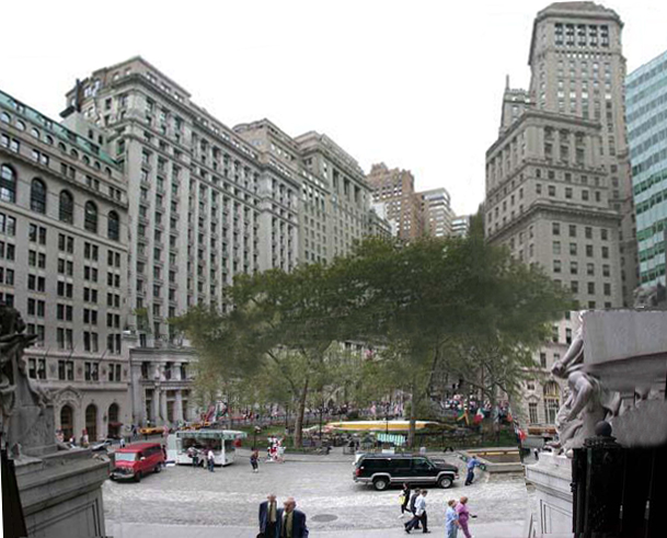 Bowling Green, in Lower Manhattan, as depicted in a composite photograph taken September 23, 2002. The view is north, from the steps of the U.S. Custom House (now the National Museum of the American Indian) along Broadway. © 2002 Matthew Trump.